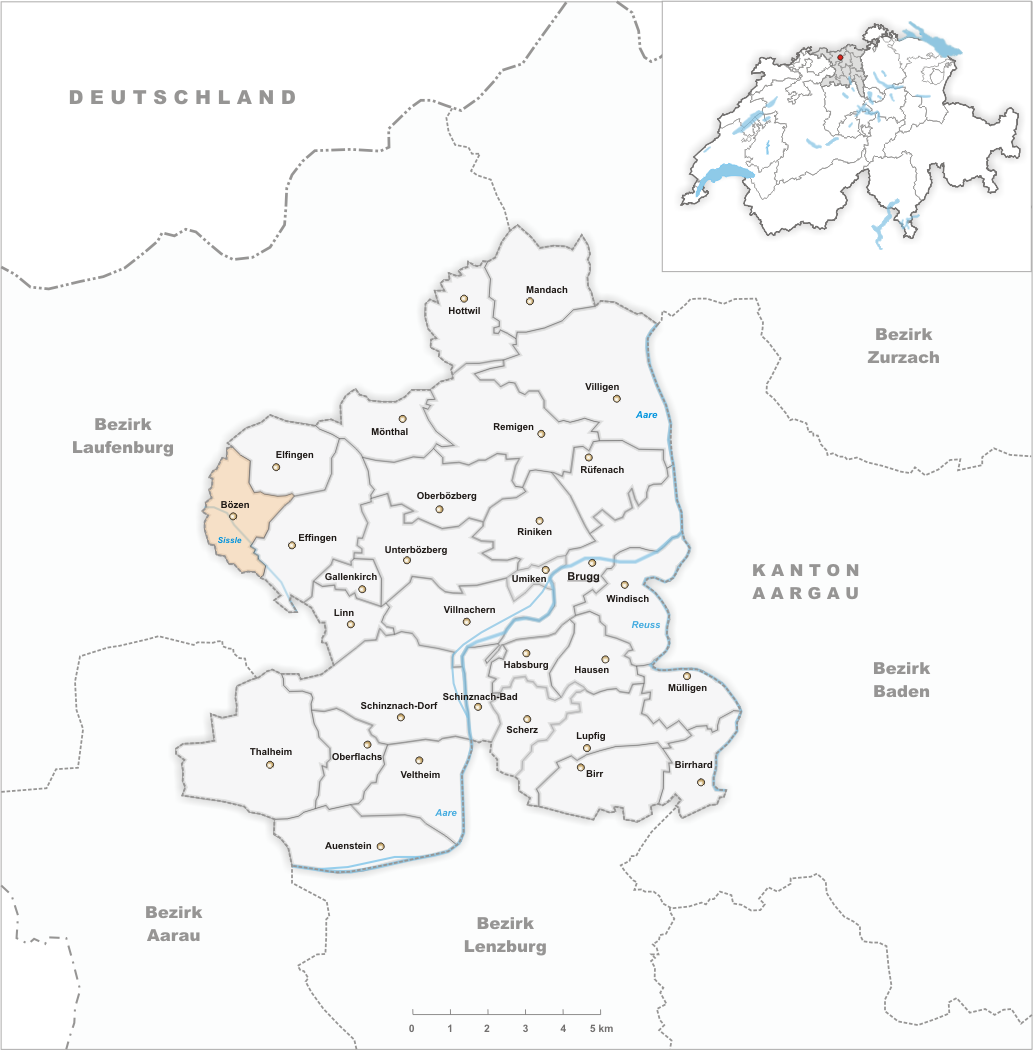 Municipality Bözen